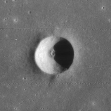 Carlini D crater, Mare Imbrium, the moon.